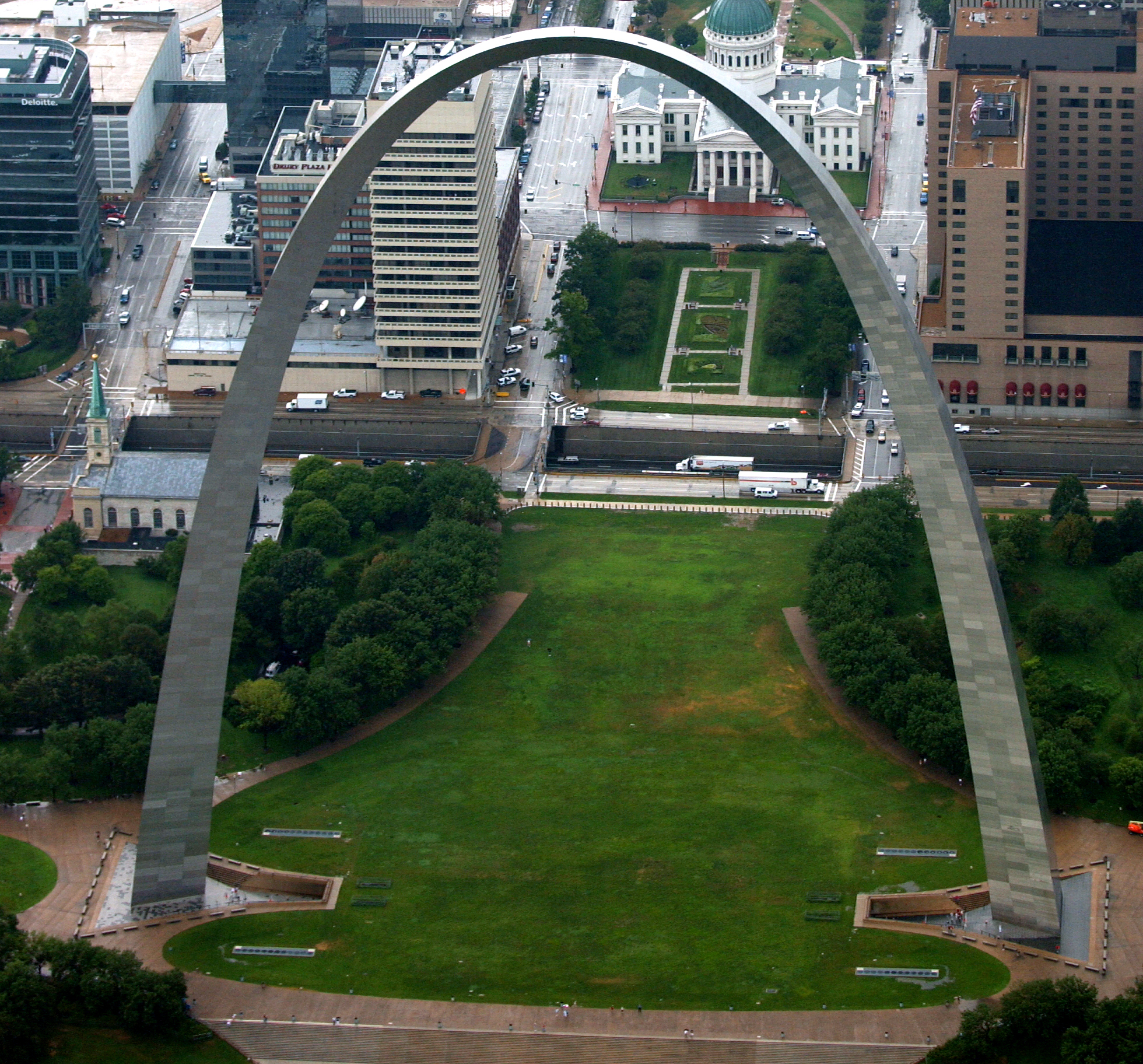 The St. Louis Arch on August 10, 2006. (U.S. Air Force photo/Tech. Sgt. Justin D. Pyle)